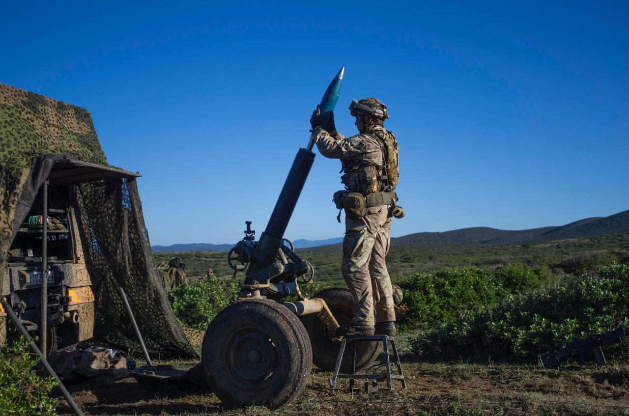 Italian Army soldiers of the 185th Paratroopers Artillery Regiment "Folgore" during the Summer Tempest exercise 2016